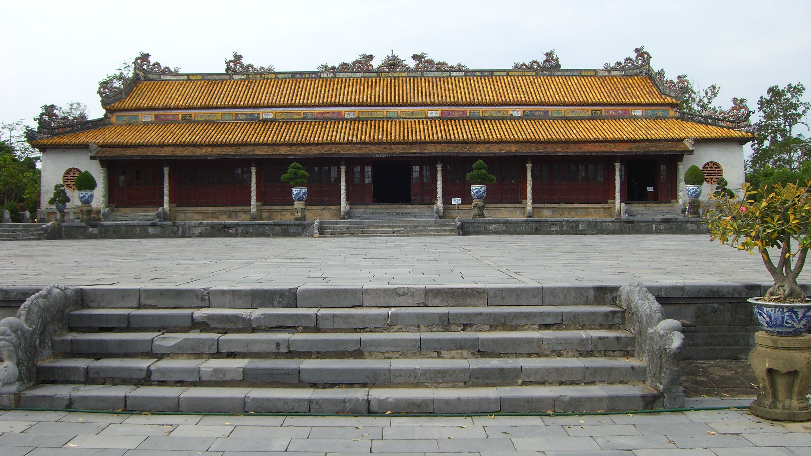 Citadel of Huế